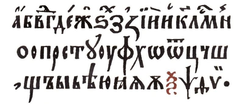 Font printing Mamonichey